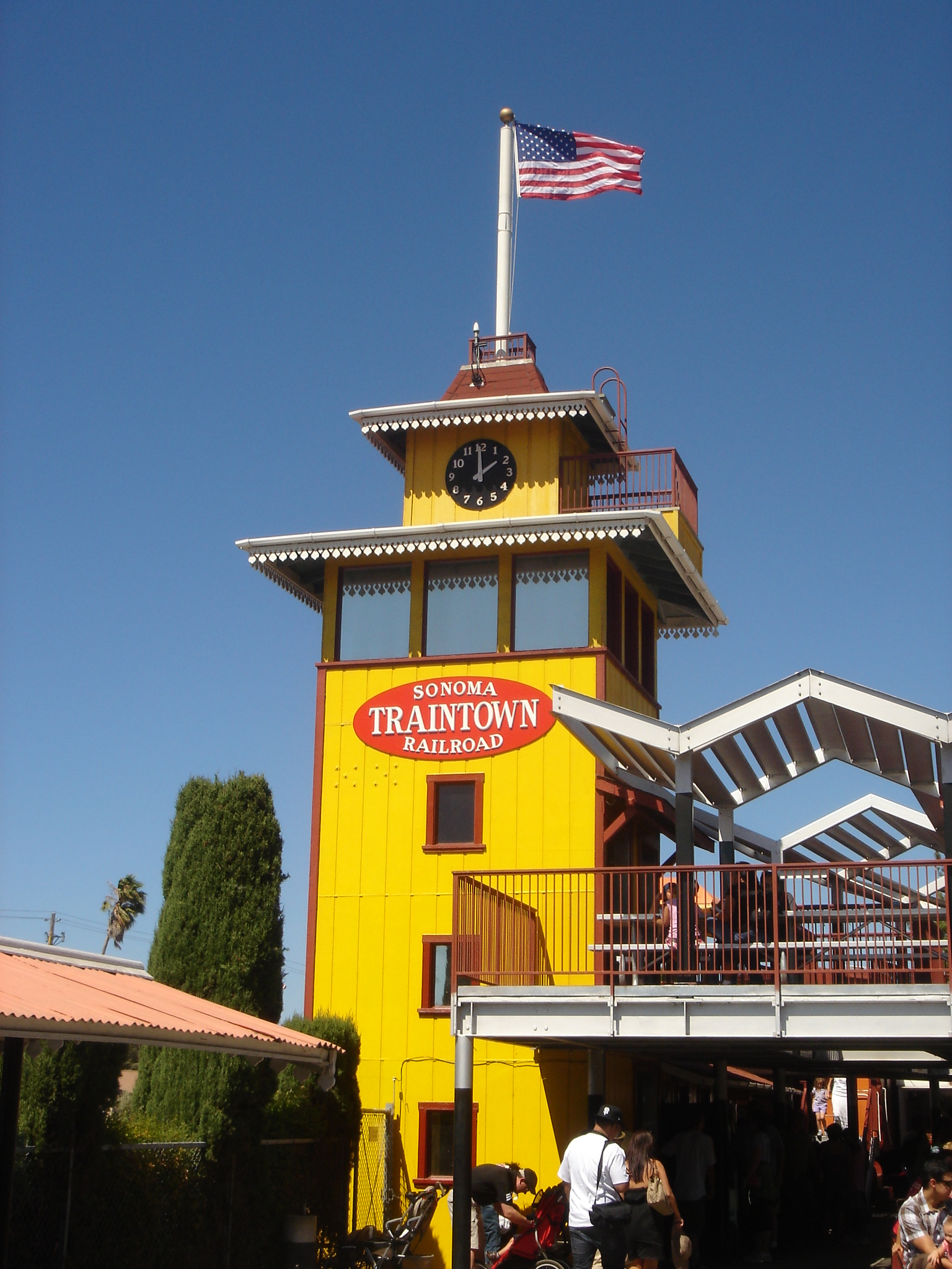 Photo of the Capital Building at Train Town, Sonoma CA